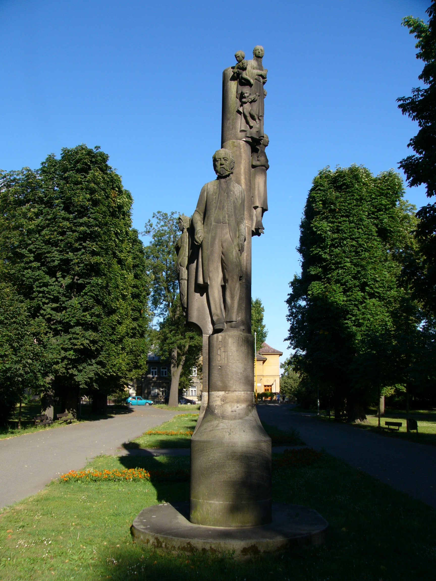 Memorial of Bedřich Smetana from 1925 by sculptor Rudolf Březa and by architect Josef Štěpánek in in Smetanovy sady park in Olomouc, (Czech Republic).